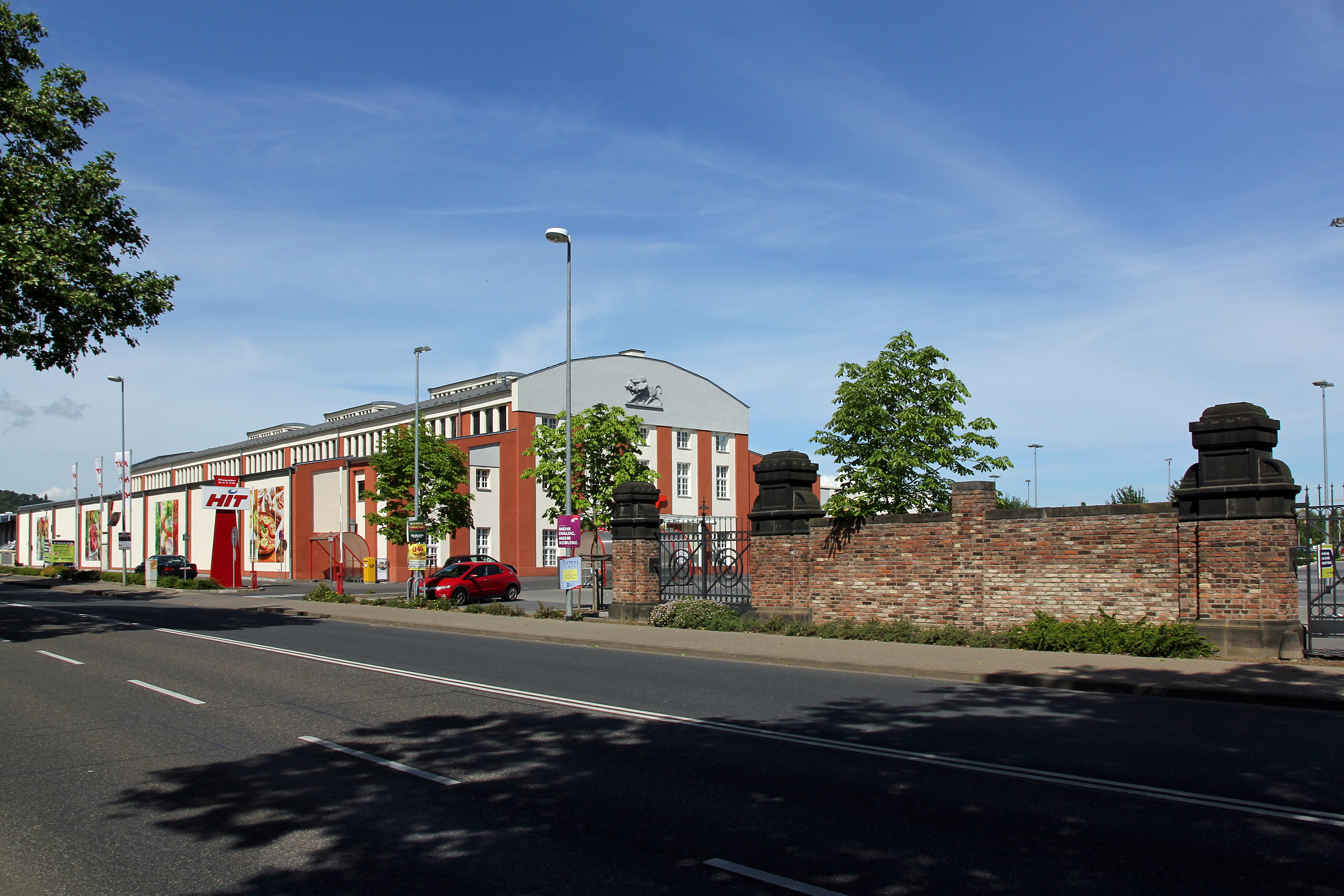 Former Slaughterhouse in Koblenz